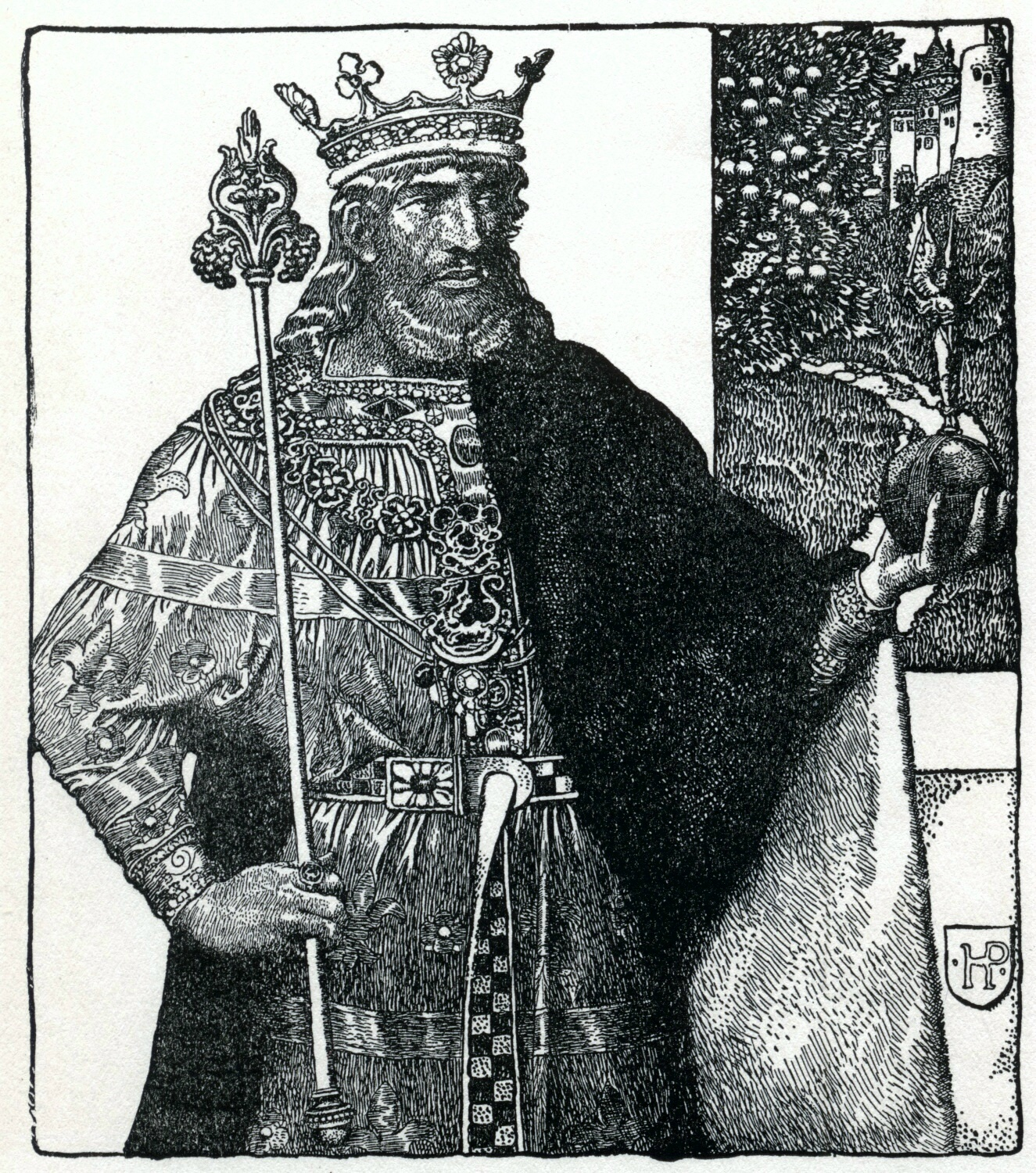 Howard Pyle illustration from the 1903 edition of The Story of King Arthur and His Knights scanned and archived at where it was marked as Public Domain.